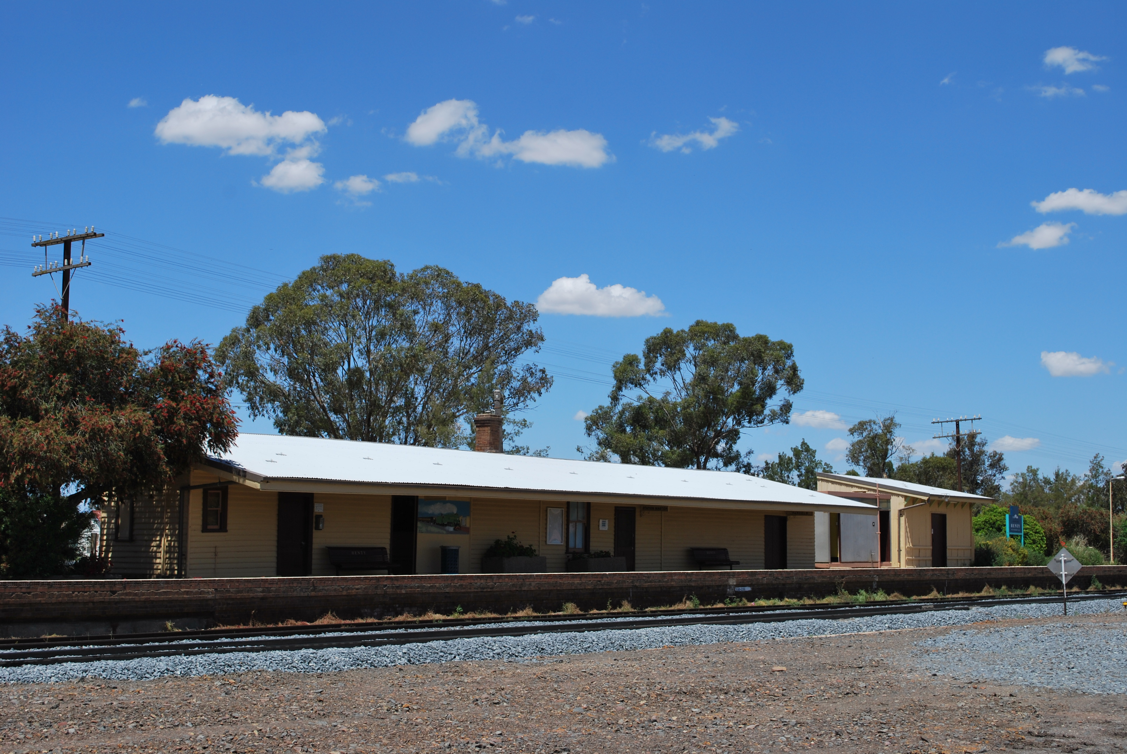 Train station at Henty, New South Wales